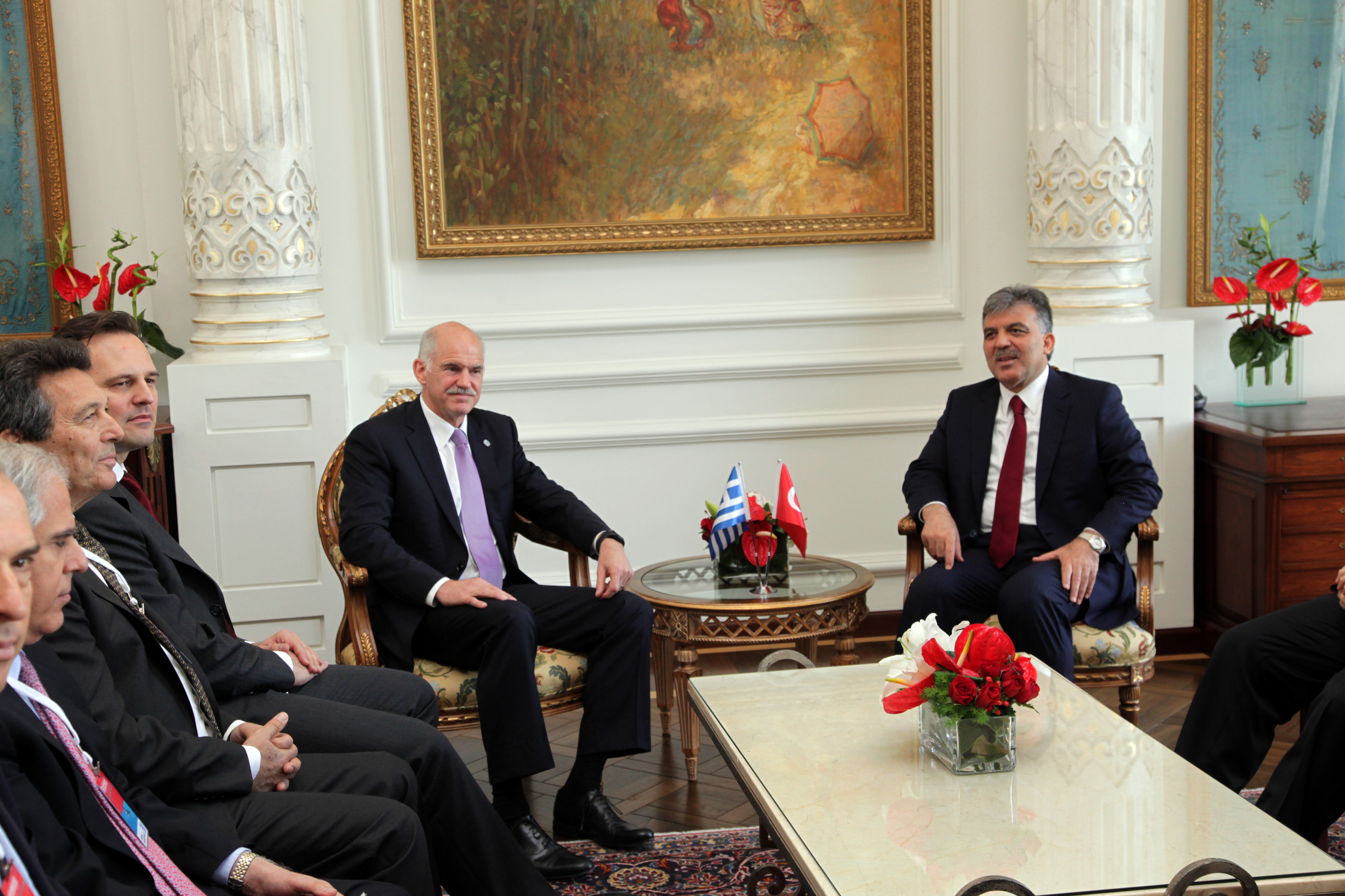 Turkish President Abdullah Gul (R) with Greek Prime Minister Georges Papandreou on June 23, 2010 during the South East Europe Cooperation Process (SEECP) summit at Ciragan Palace in Istanbul.